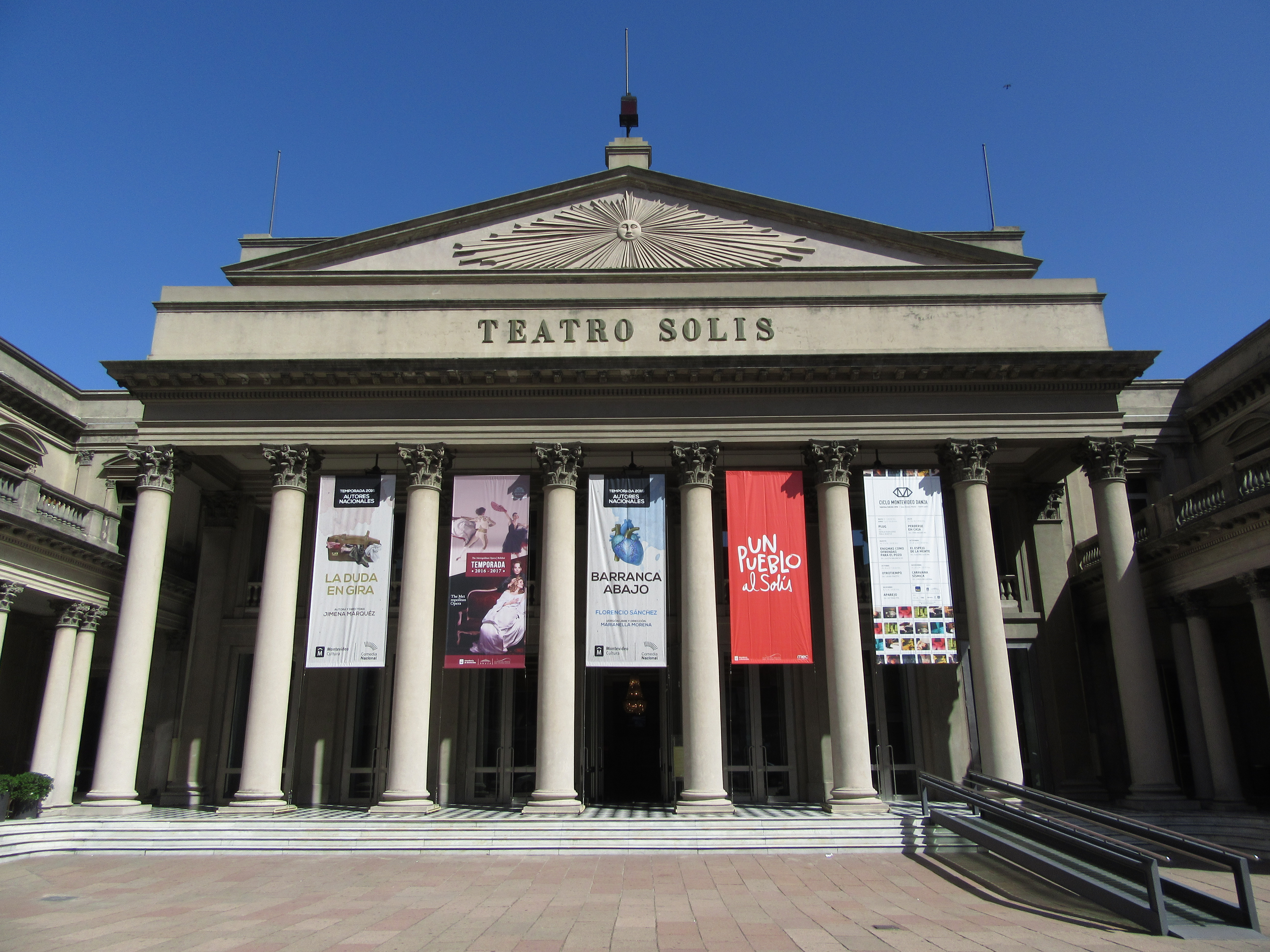 Montevideo